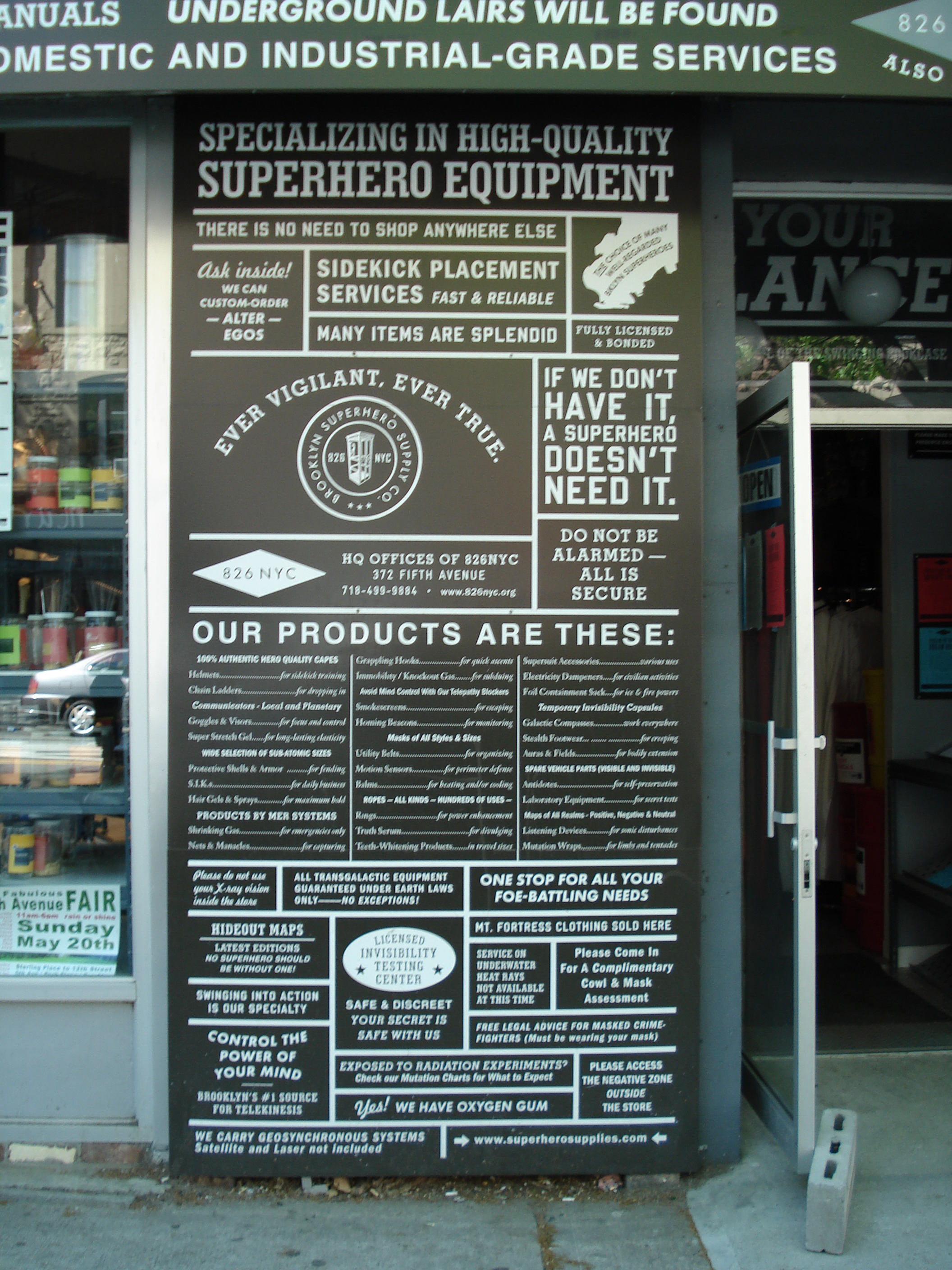 The outside of The Brooklyn Superhero Supply Company, the front for the charitable organization 826NYC, in Park Slope, Brooklyn, New York City (detail). Copyright 2007 Jeffrey O. Gustafson, released under the GFDL and CC-BY-SA-2.0 to Wikimedia Commons.